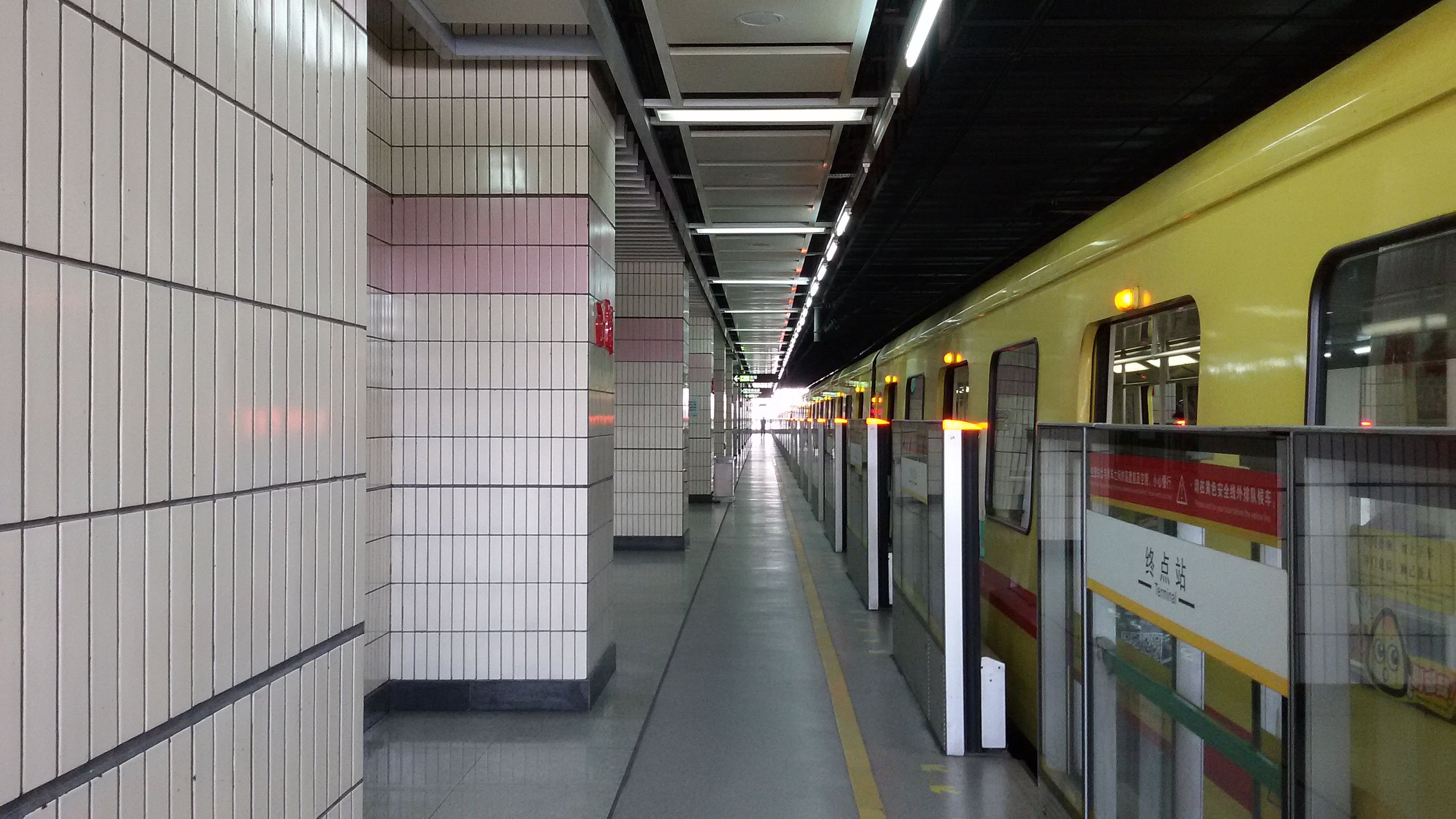 粵語: 廣州地鐵同佛山地鐵，西朗站嘅月台（廣州地鐵1號綫）。